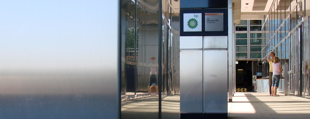 London city workers on a sunny Sunday awaiting the opening of the pass protected door at 20 Canada Square, home to BP and McGraw-Hill.